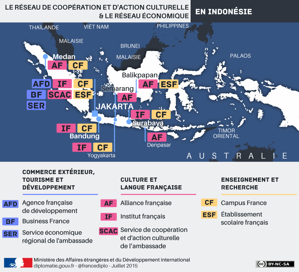 Map of the French cooperation and cultural action network and of the French economic network in Indonesia